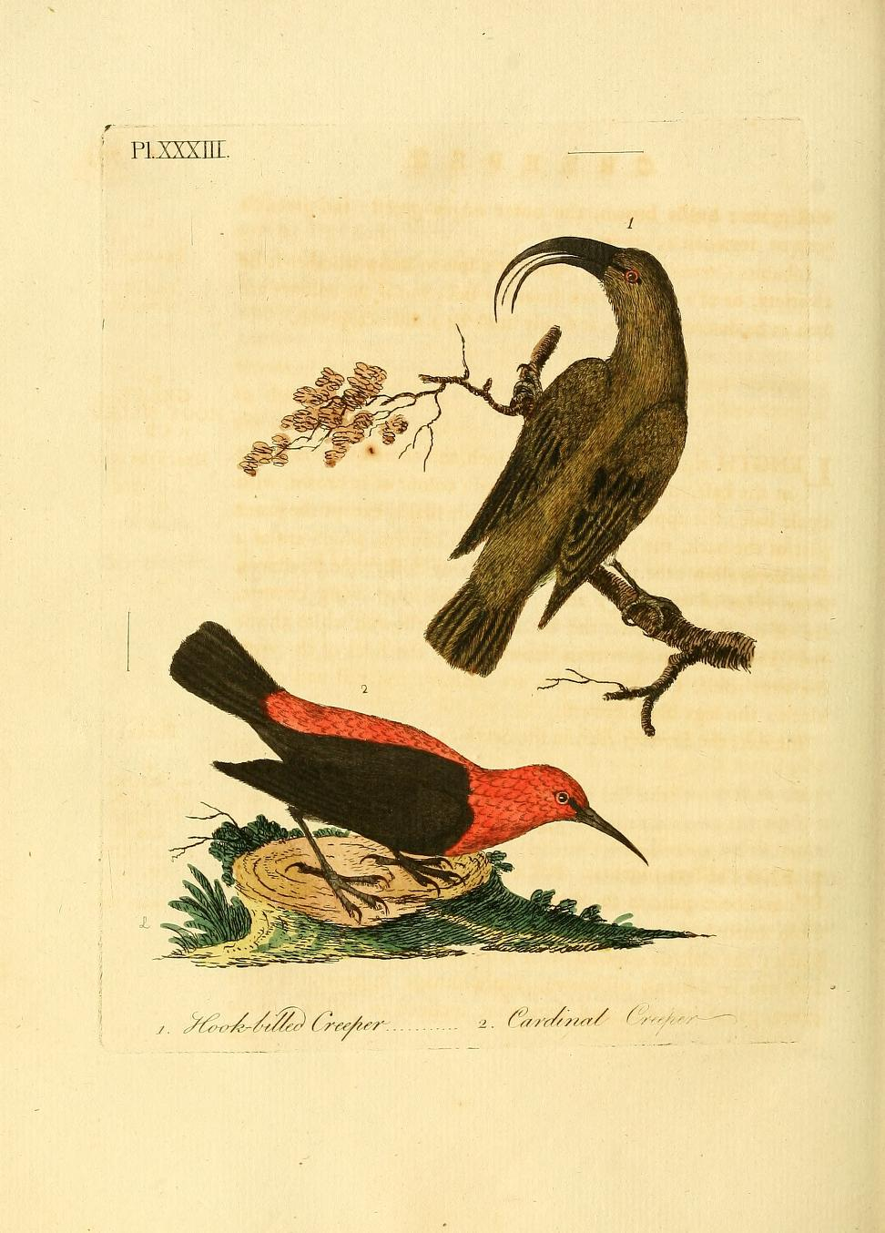 Plate XXXIII from Latham's A general synopsis of birds fig. 1 - Hook-billed green Creeper = Hemignathus obscurus fig. 2 - Cardinal Creeper = Myzomela cardinalis